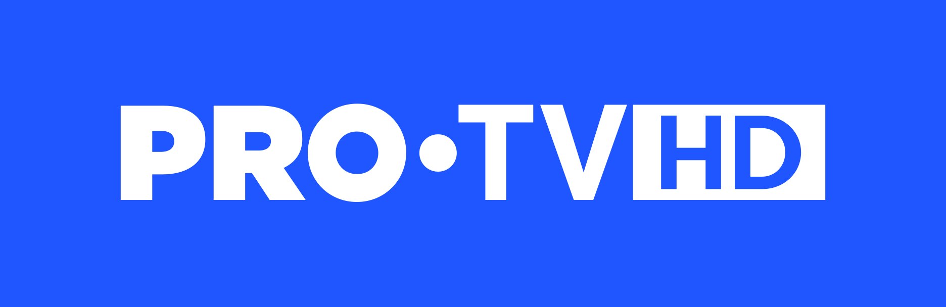 Hunter